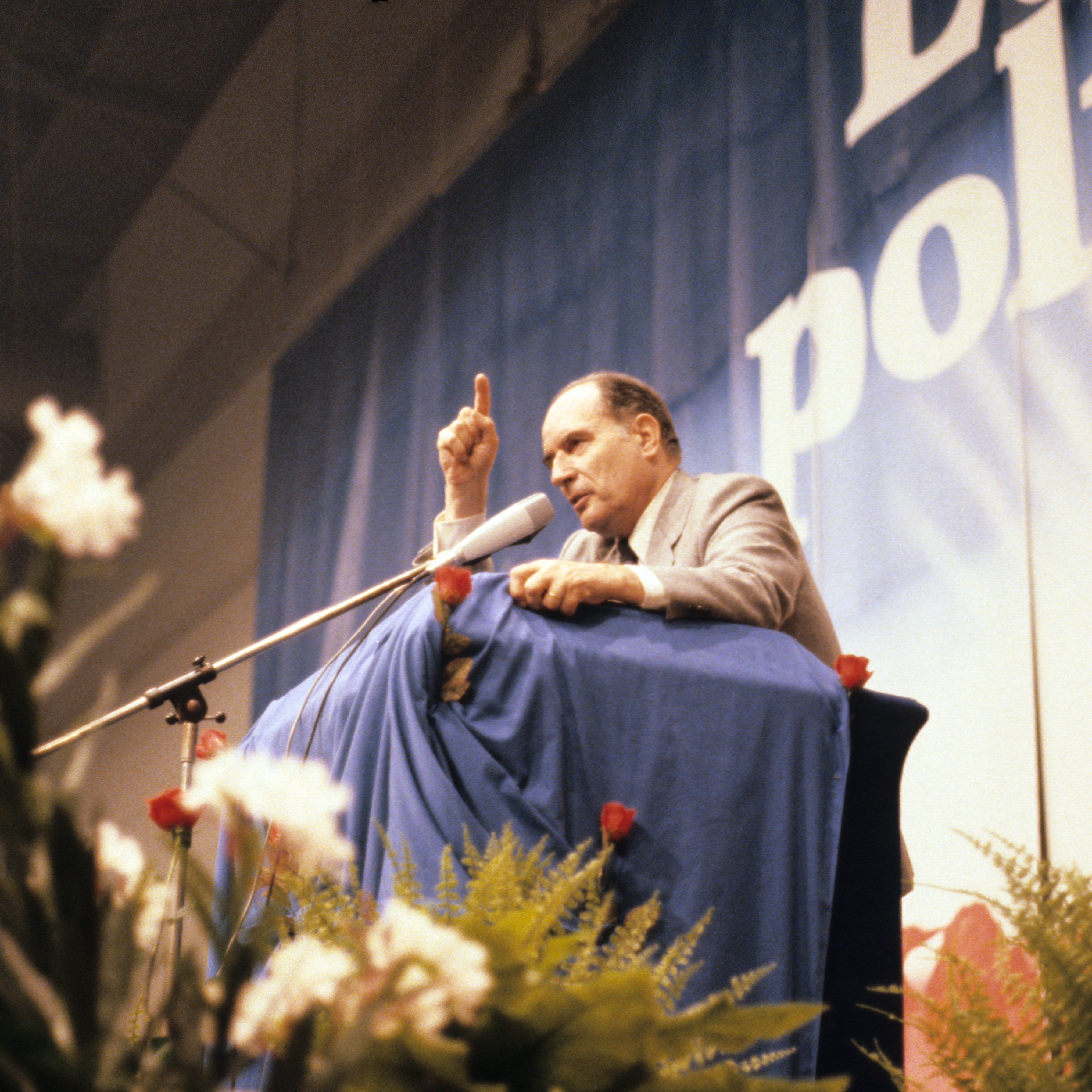 Strasbourg-1981-04-19